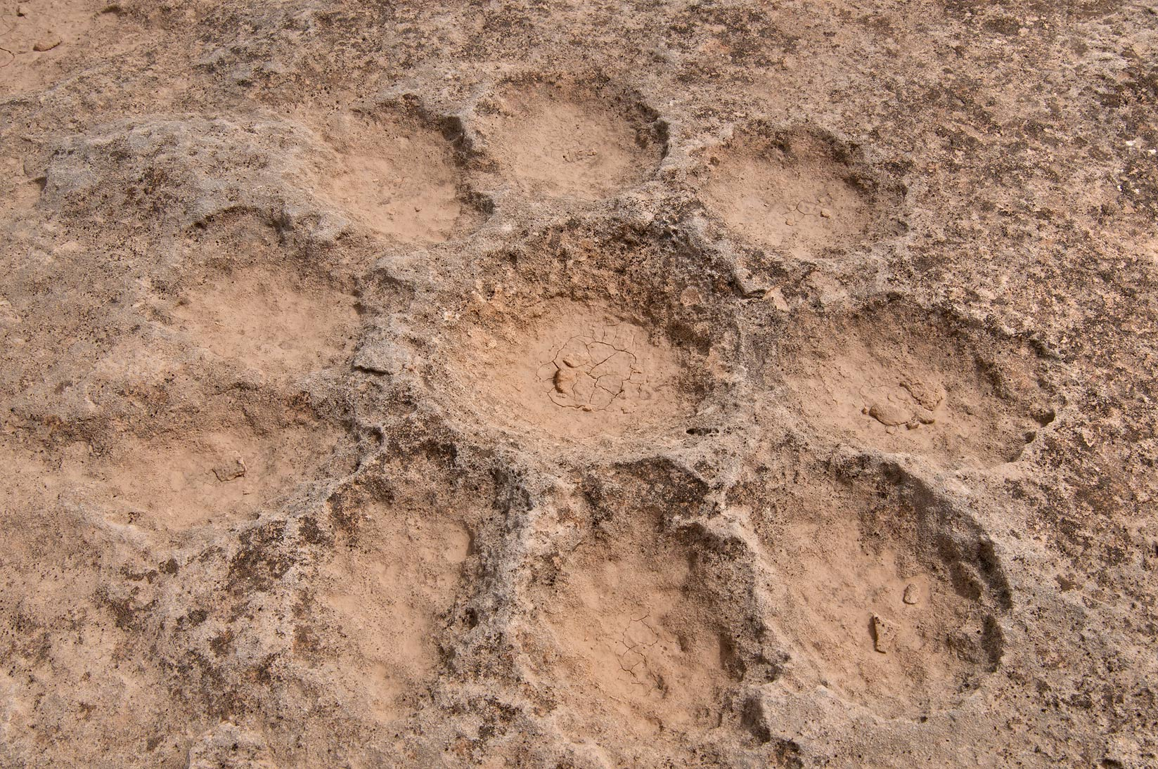 Rosette-patterned cup marks in Jebel Fuwayrit, northern Qatar.